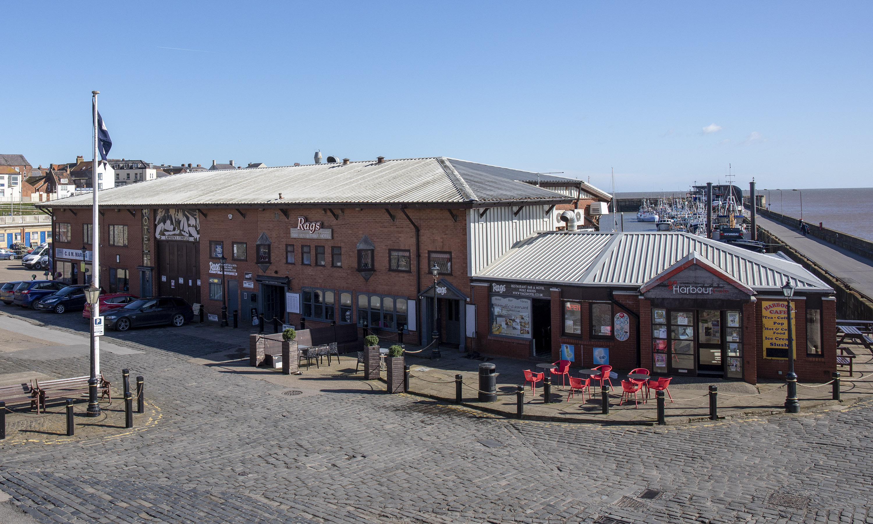 The Lawrence Complex was built in 1993 and is sited on the former RAF Sheds for their Marine Craft Unit, which was last used by the Royal Air Force in 1978. It is named after T E Lawrence, who served at RAF Bridlington in the 1930s.